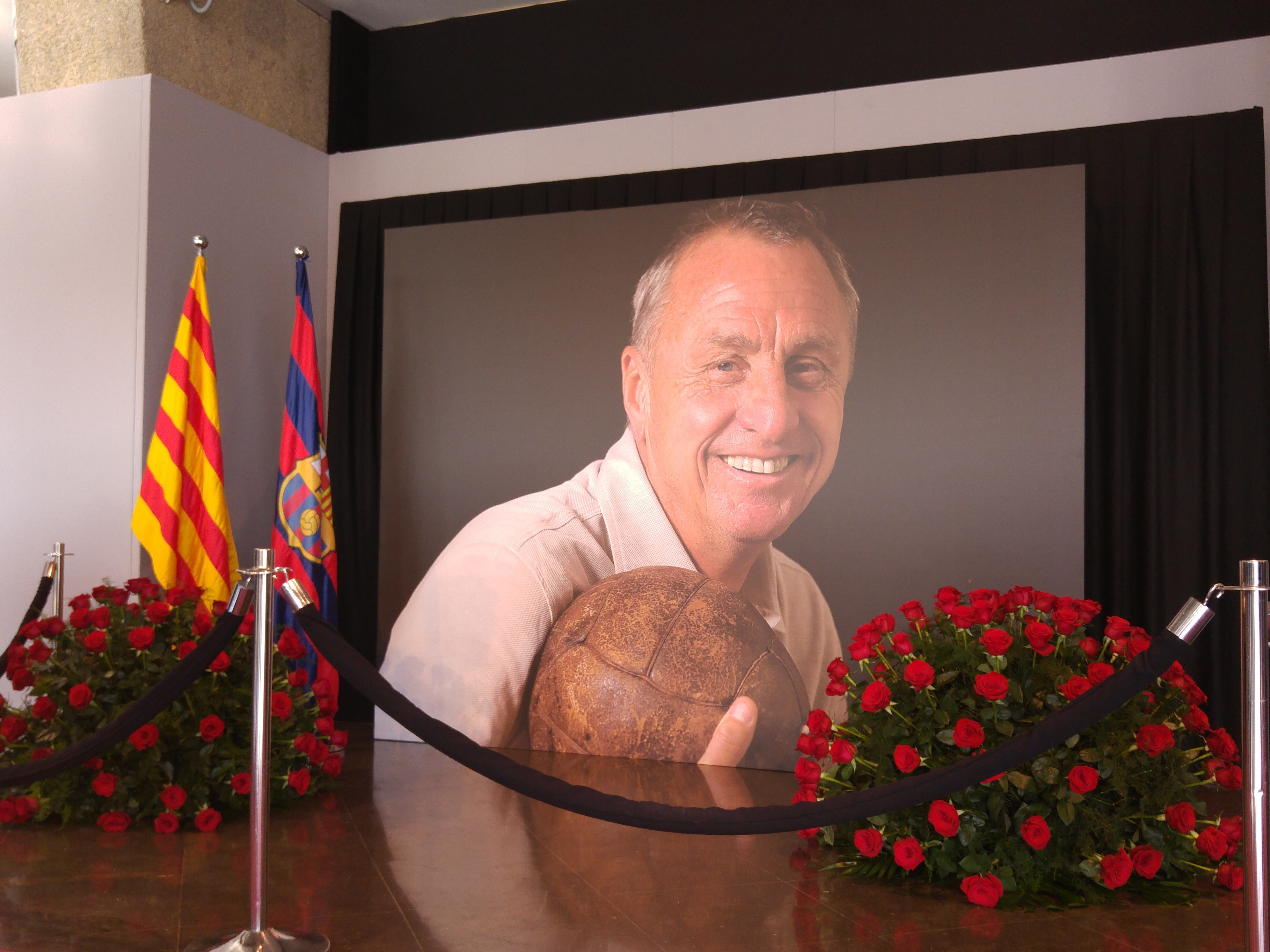 Johan Cruyff tribute in the Camp Nou stadium on March 26, 2016, Barcelona